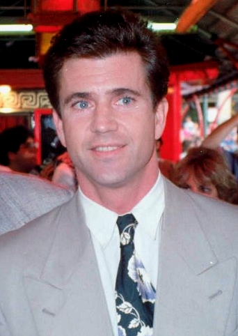 Photo of Mel Gibson at the premiere of Air America.